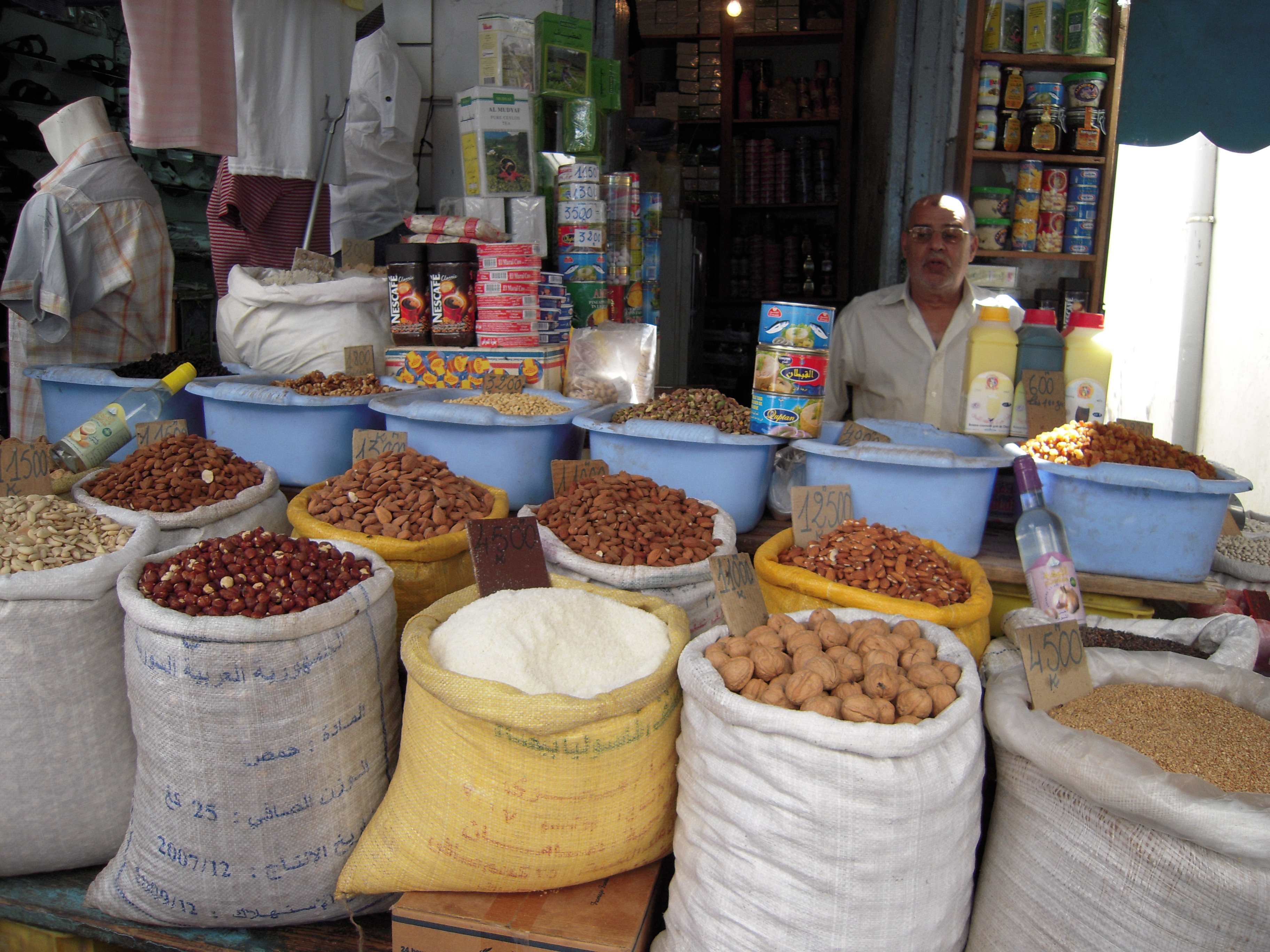 This is an image of food from Tunisia